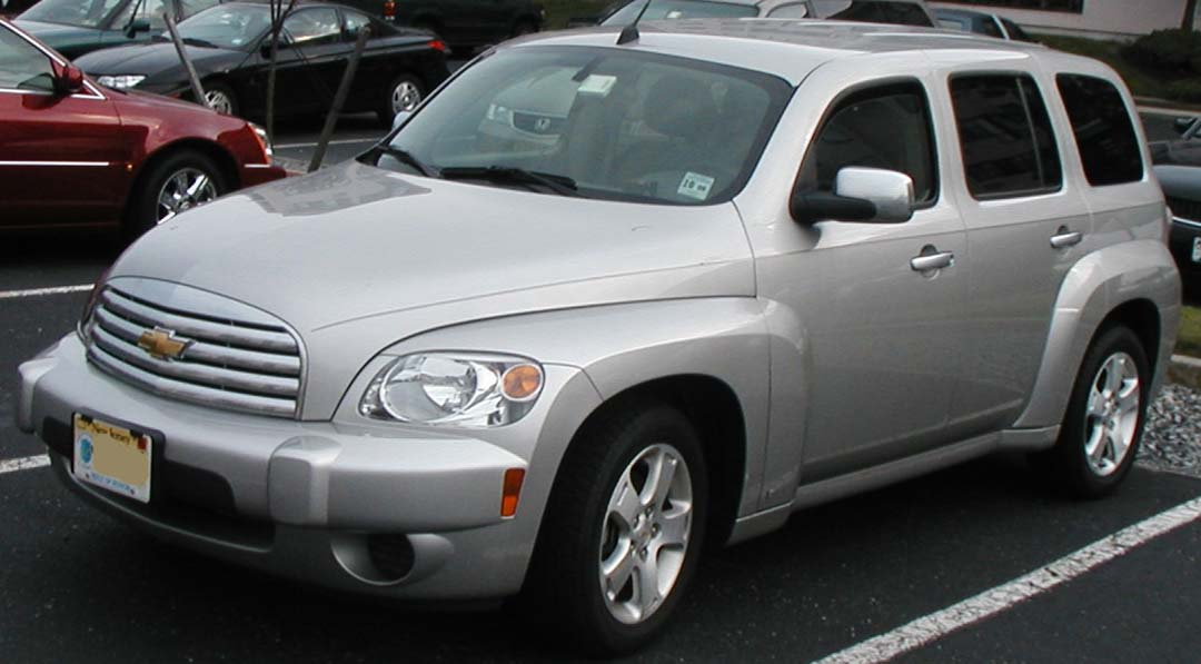 2006-2007 Chevrolet HHR photographed in USA.